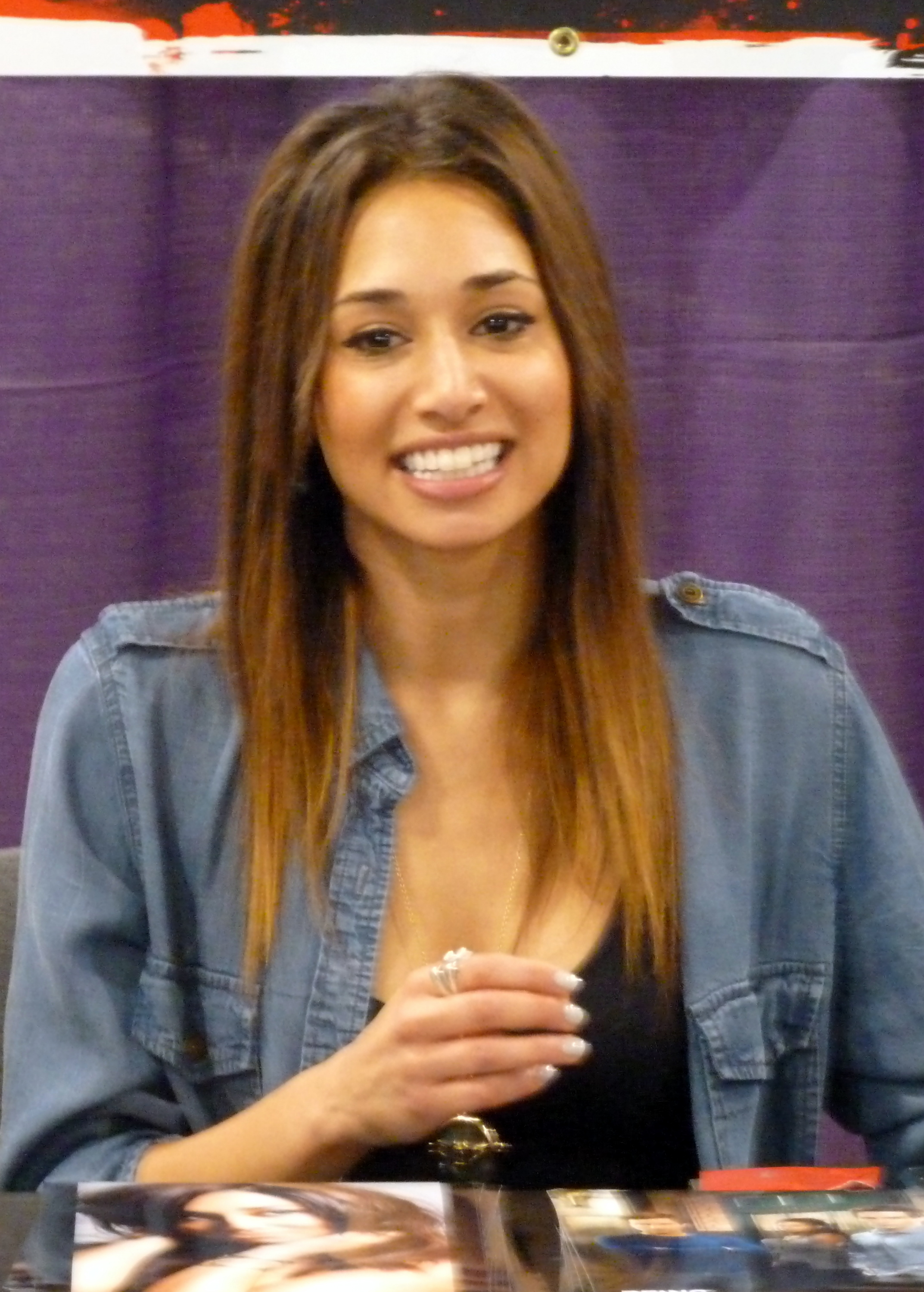 Meaghan Rath of Being Human at Wizard World Toronto 2012.